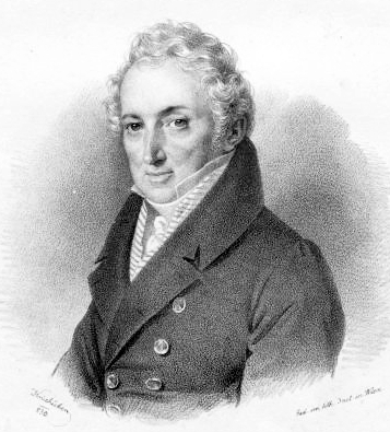 Austrian composer and musicologist Ignaz Franz von Mosel (1722-1844) by Joseph Kriehuber (1800-1876).